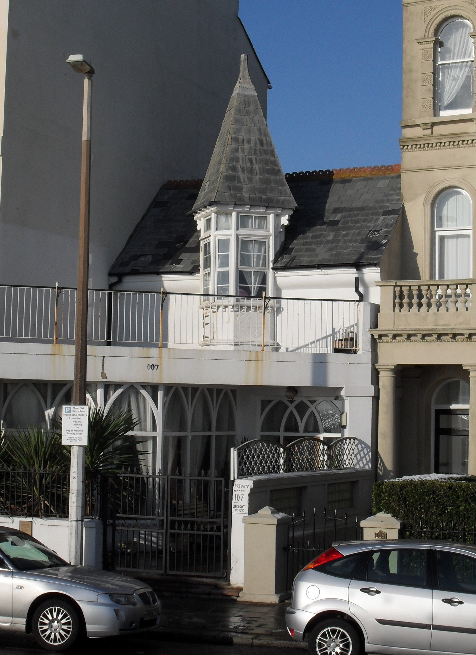 Former lifeboat station, 107 Marine Parade, Worthing, West Sussex, England, seen from the south. Opened in 1874 and closed in 1930 when Shoreham-by-Sea lifeboat station took over serving Worthing.